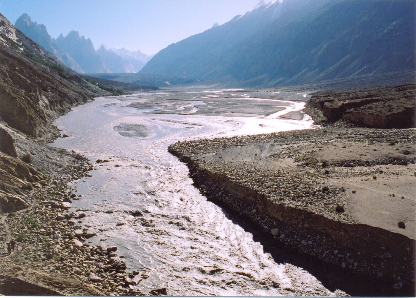 the Baltoro Glacier (in the background) is the source of the Braldu River. Trango Cathedral on the far left (among others)